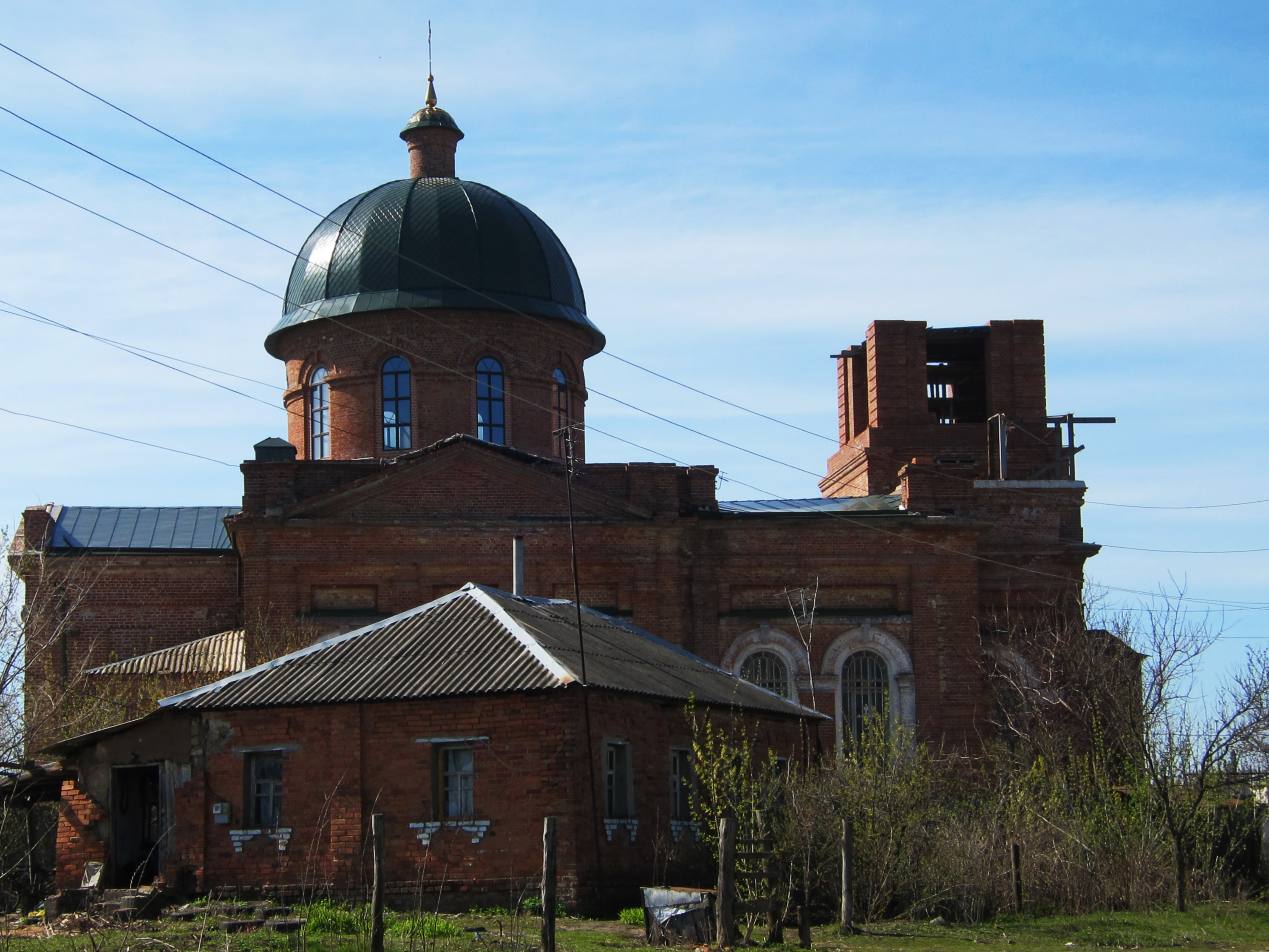 Church of the Nativity of the Virgin Mary, Cherkaski Tyshky